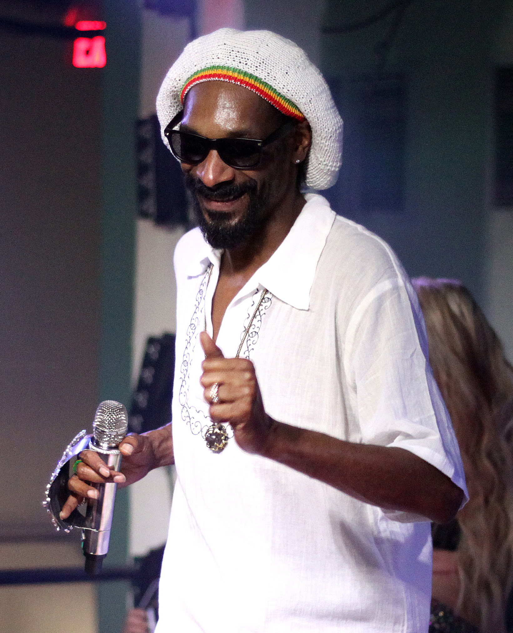 Snoop Dogg Takes the Stage at The Hoxton in Toronto, Ontario on August 2012.